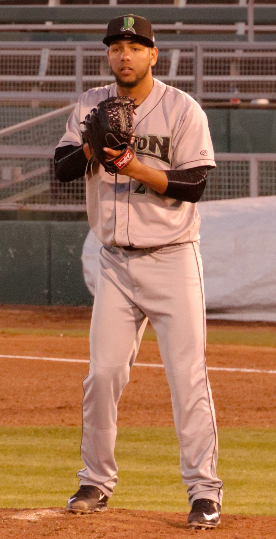 Ariel Hernández on the mound for the Dayton Dragons in 2016